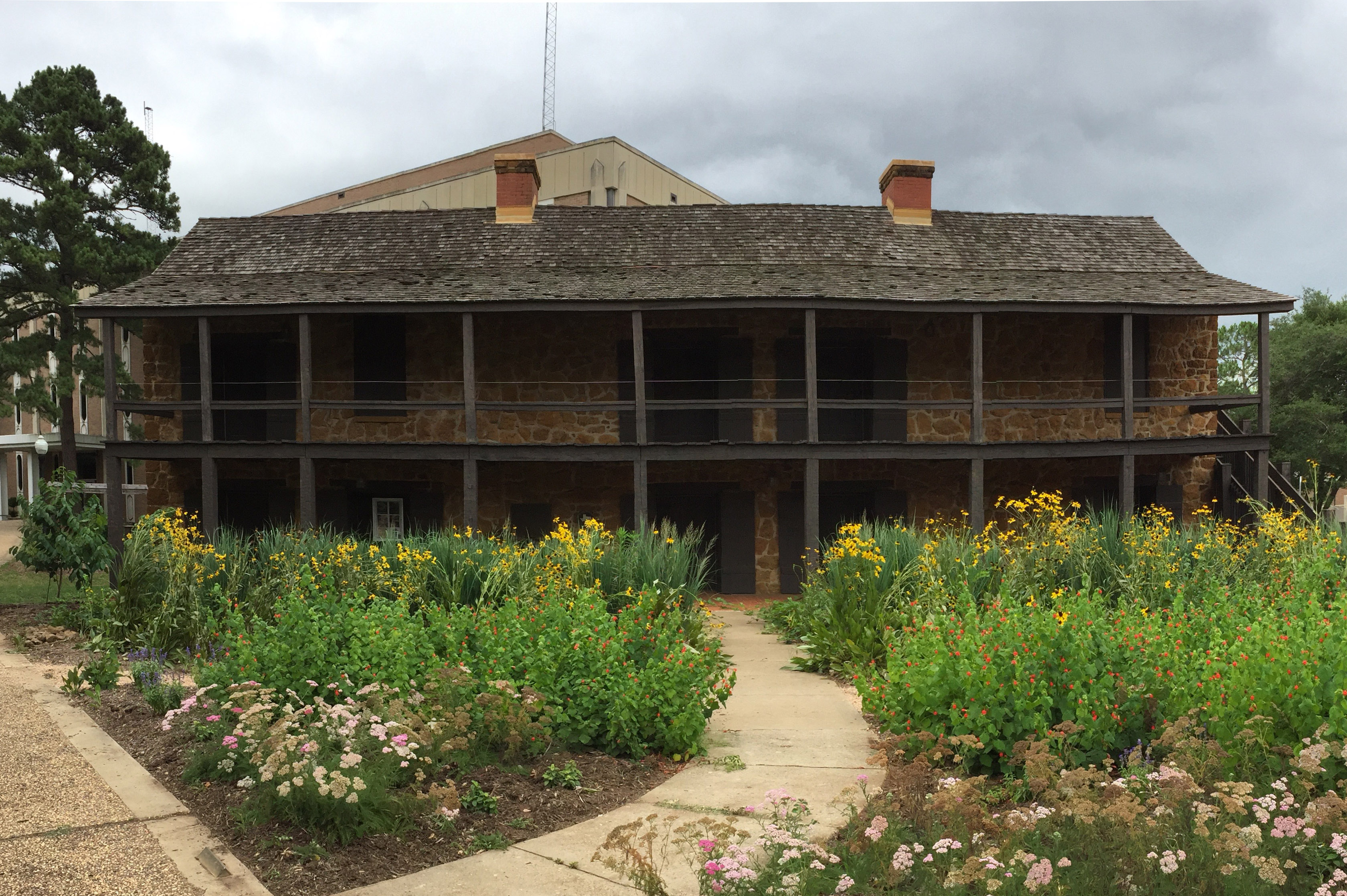 A landmark Texas Centennial structure, the Stone Fort Museum is housed in a reconstruction of Antonio Gil Y’Barbo’s 18th century stone house. Torn down in 1902, the stone house defined early Nacogdoches and the Stone Fort Museum celebrates the earliest history of the region. Join us as we discover early East Texas!